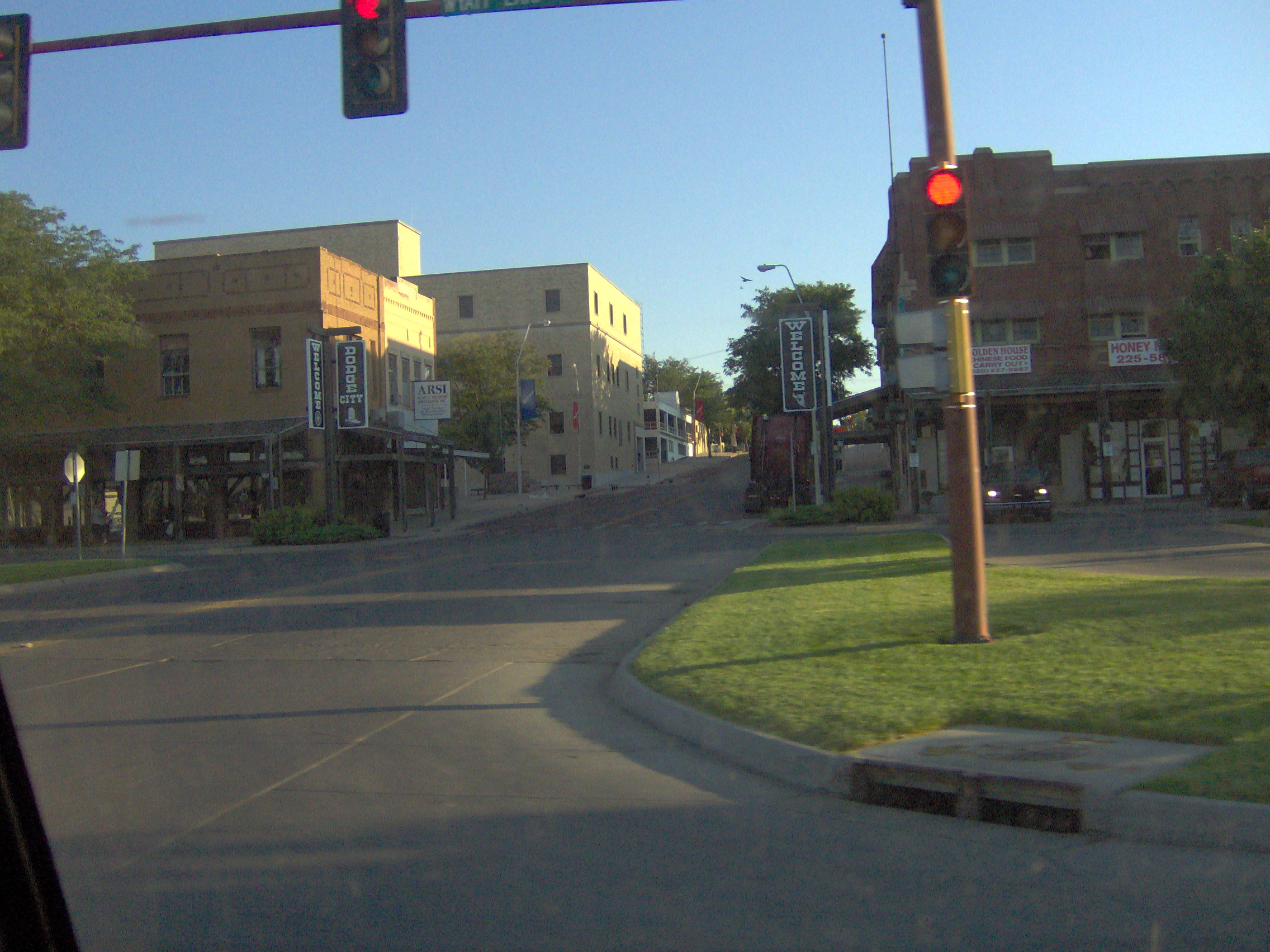 Buildings along First Avenue in downtown Dodge City, Kansas, United States, as viewed from its intersection with Wyatt Earp Boulevard (U.S. Routes 50/400). This part of downtown is within the boundaries of the Dodge City Downtown Historic District, a historic district that is listed on the National Register of Historic Places.